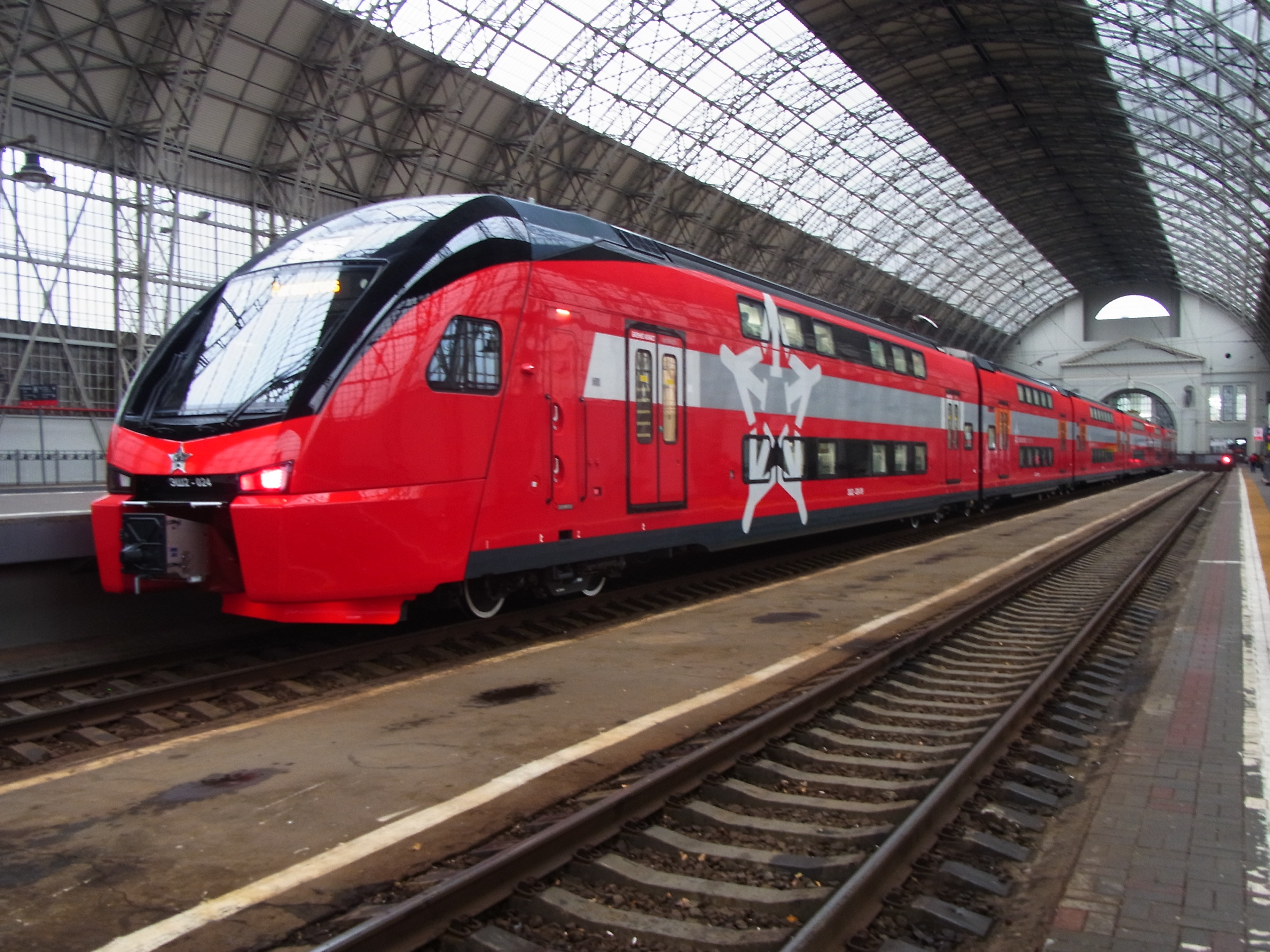 Electric multiple unit ESh2-024 at Kievsky railway station in Moscow, Russia